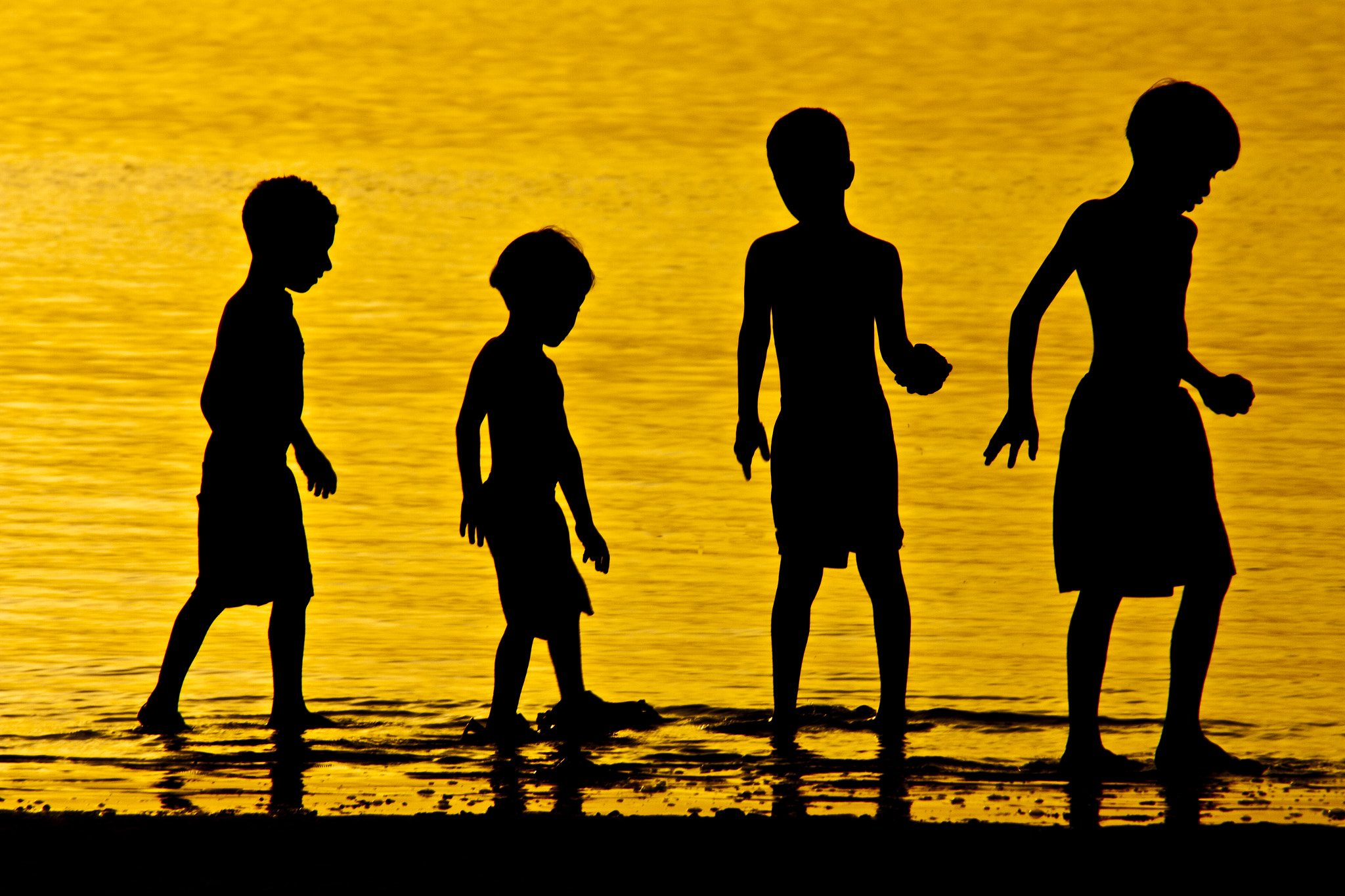 500px provided description: Children playing on the beach [#Bahrain]